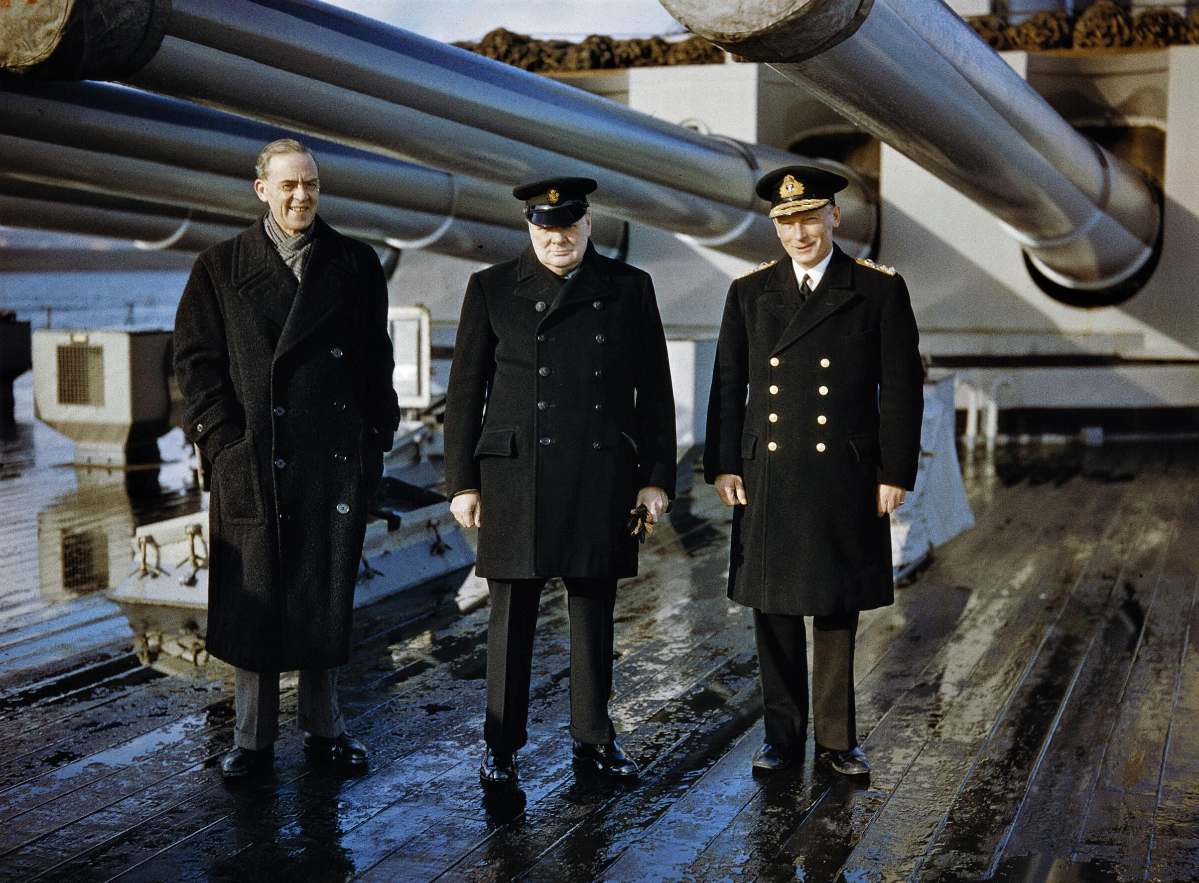 Winston Churchill with the Lord Privy Seal, Sir Stafford Cripps, and the Commander-in-Chief Home Fleet, Admiral Sir John Tovey, on the quarterdeck of HMS KING GEORGE V at Scapa Flow, 11 October 1942. The Prime Minister, the Rt Hon Winston Churchill, MP, with the Lord Privy Seal, Sir Stafford Cripps, and the Commander in Chief Home Fleet, Admiral Sir John Tovey, on the quarterdeck of HMS KING GEORGE V at Scapa.